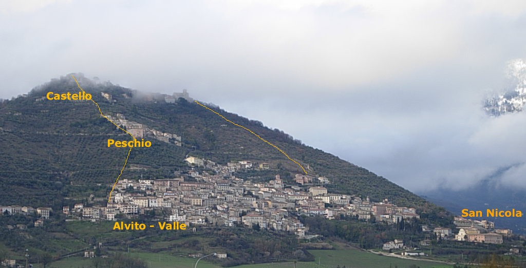 own work from [1]